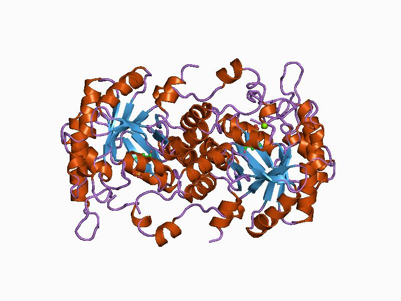 Cartoon representation of the molecular structure of protein registered with 1b4k code.